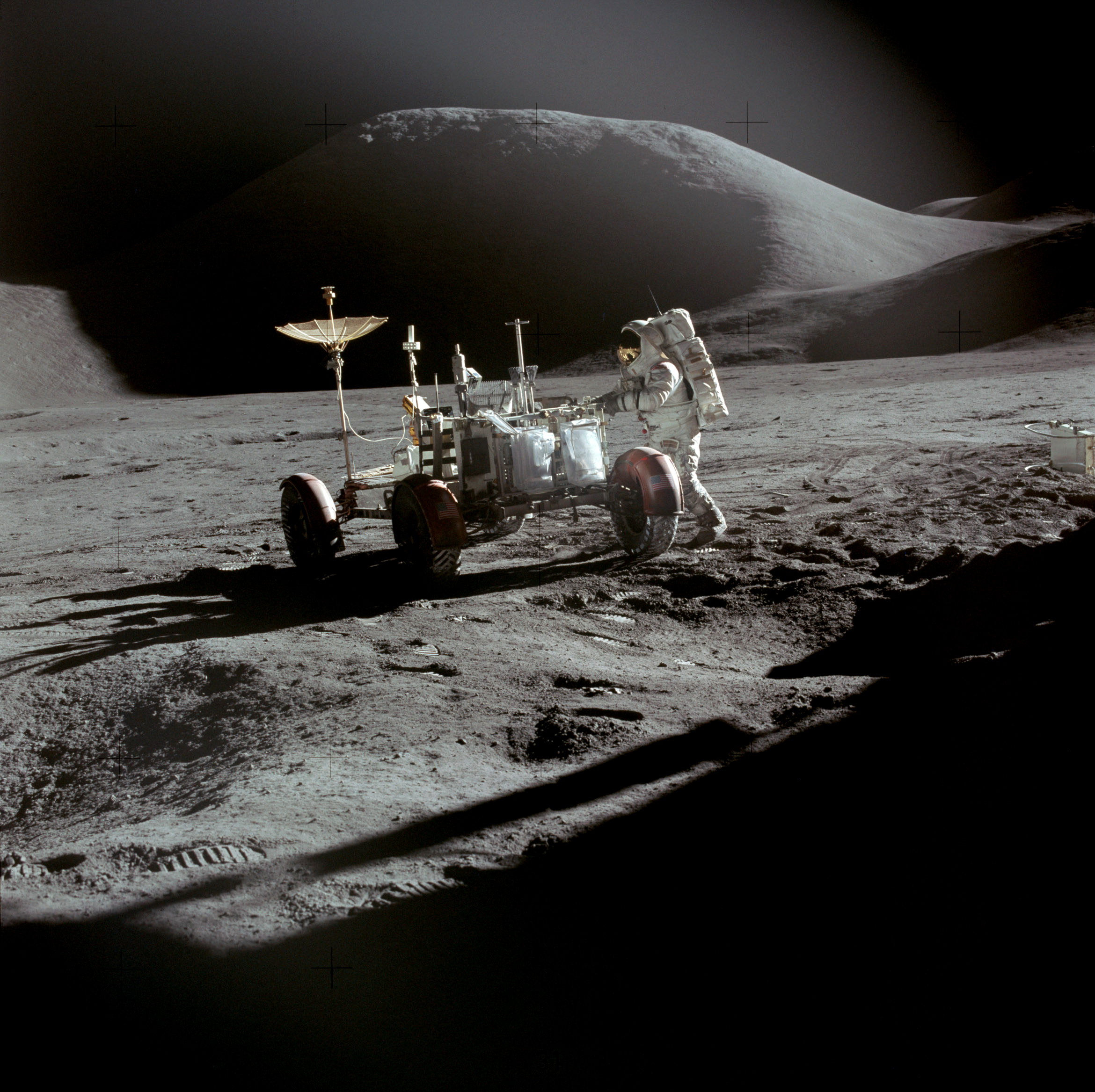 Image from Apollo 15, taken by Commander David Scott at the end of EVA-1. Lunar Module Pilot Jim Irwin is seen with the Lunar Roving Vehicle, with Mount Hadley in the background. Seen on the back of the Rover are two SCBs mounted on the gate, along with the rake, both pairs of tongs, the extension handle with scoop probably attached, and the penetrometer. Note that the TV camera is pointed down, in the stowed position.